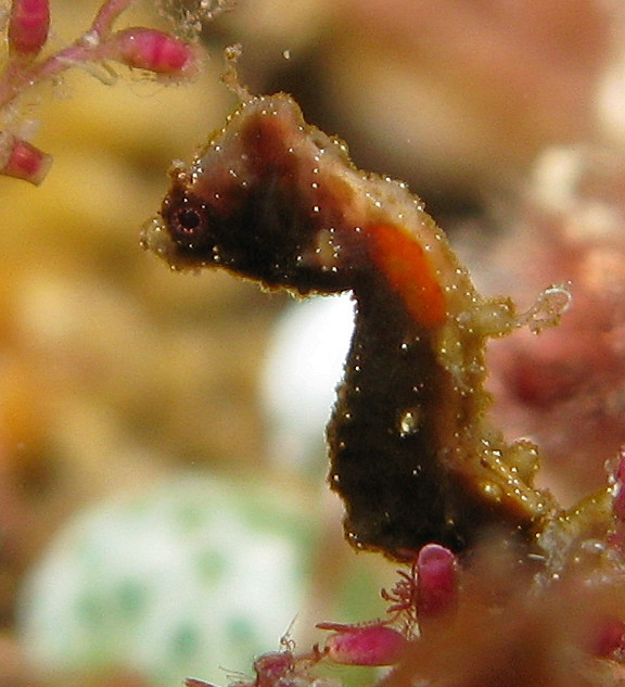 Hippocampus pohonti